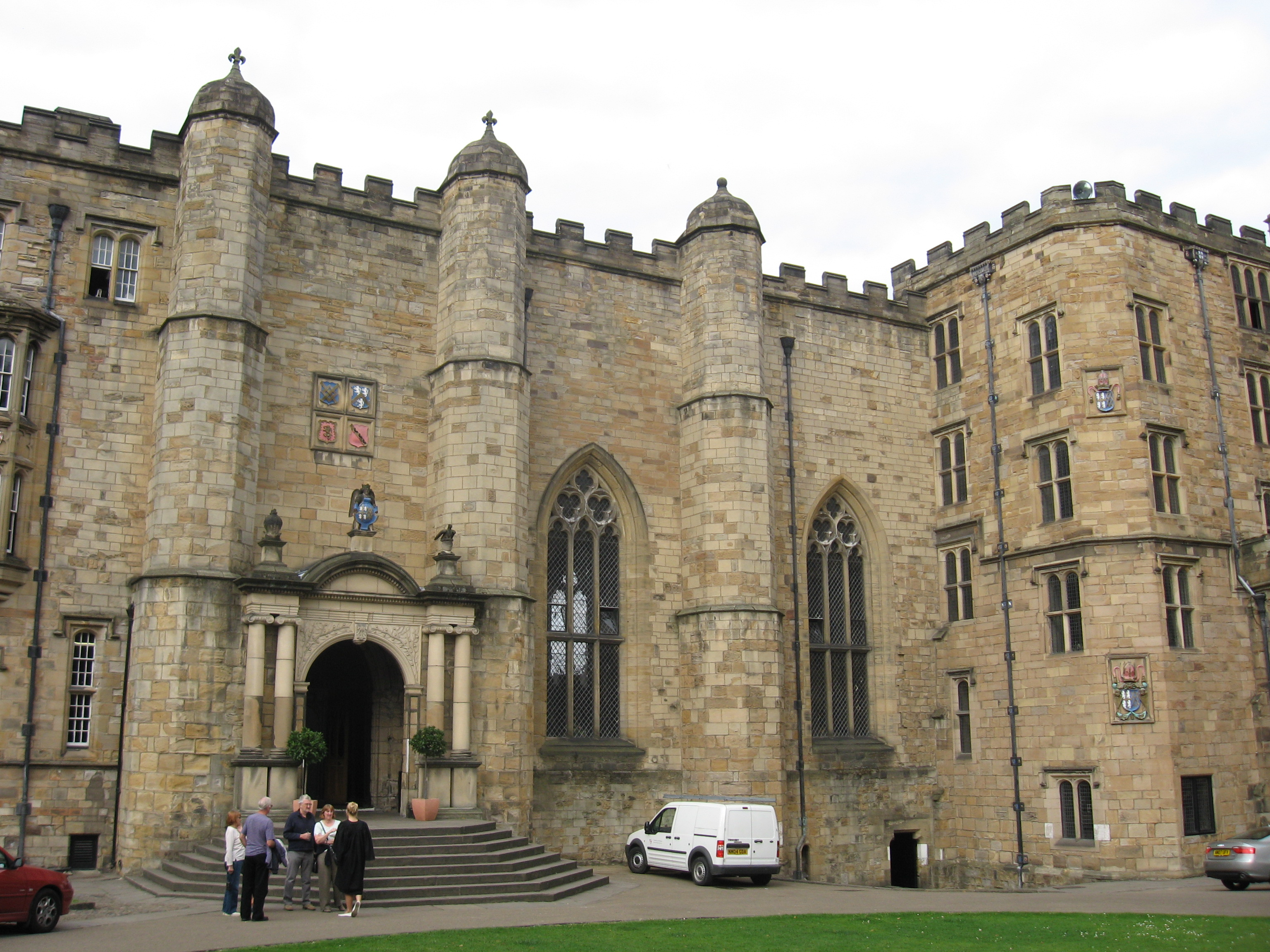 Durham Castle-Entrance